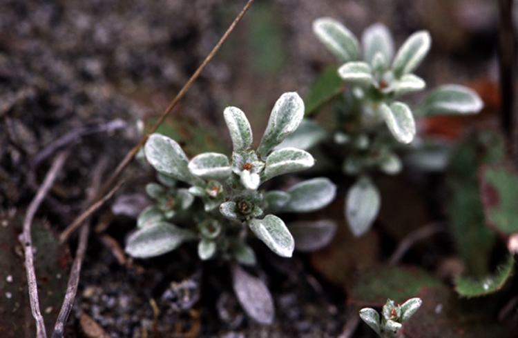 Hesperevax sparsiflora var. brevifolia at Humboldt Bay National Wildlife Refuge Complex, California, USA